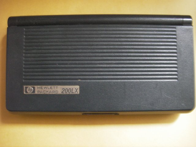 HP 200Lx I took this picture. Let me know if others are needed. -- Sy / (talk) 16:07, 19 Jun 2005 (UTC)